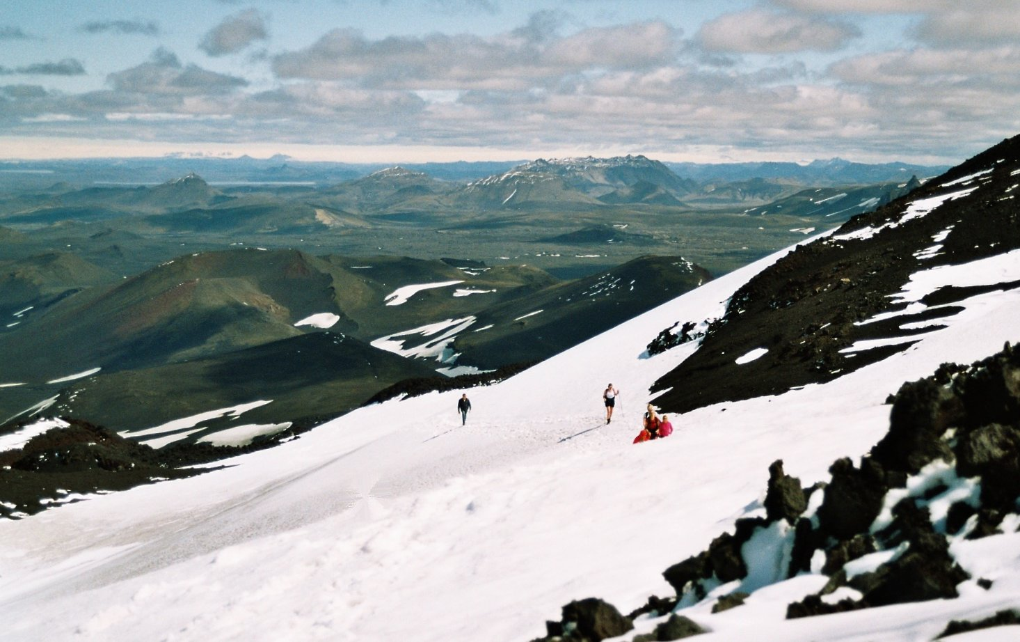 View from the slopes of the volcano Hekla, Iceland. Image rotated to level horizon and cropped from flickr original.